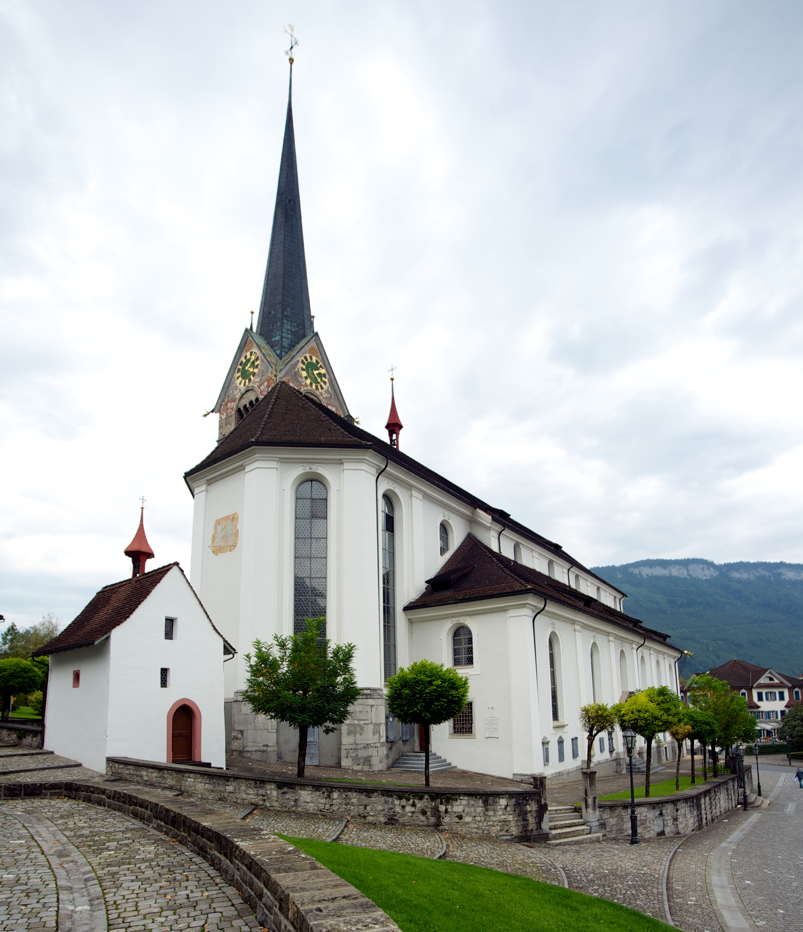 Katholische Kirche St. Peter und Paul External View